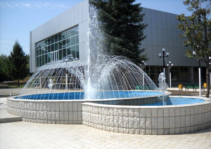 Akhmeta theatre building